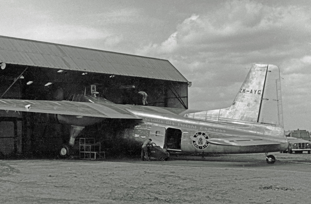 Bristol 170 Freighter series 31 ZK-AYG of Straits Air Freight Express at Blackbushe UK in 1955